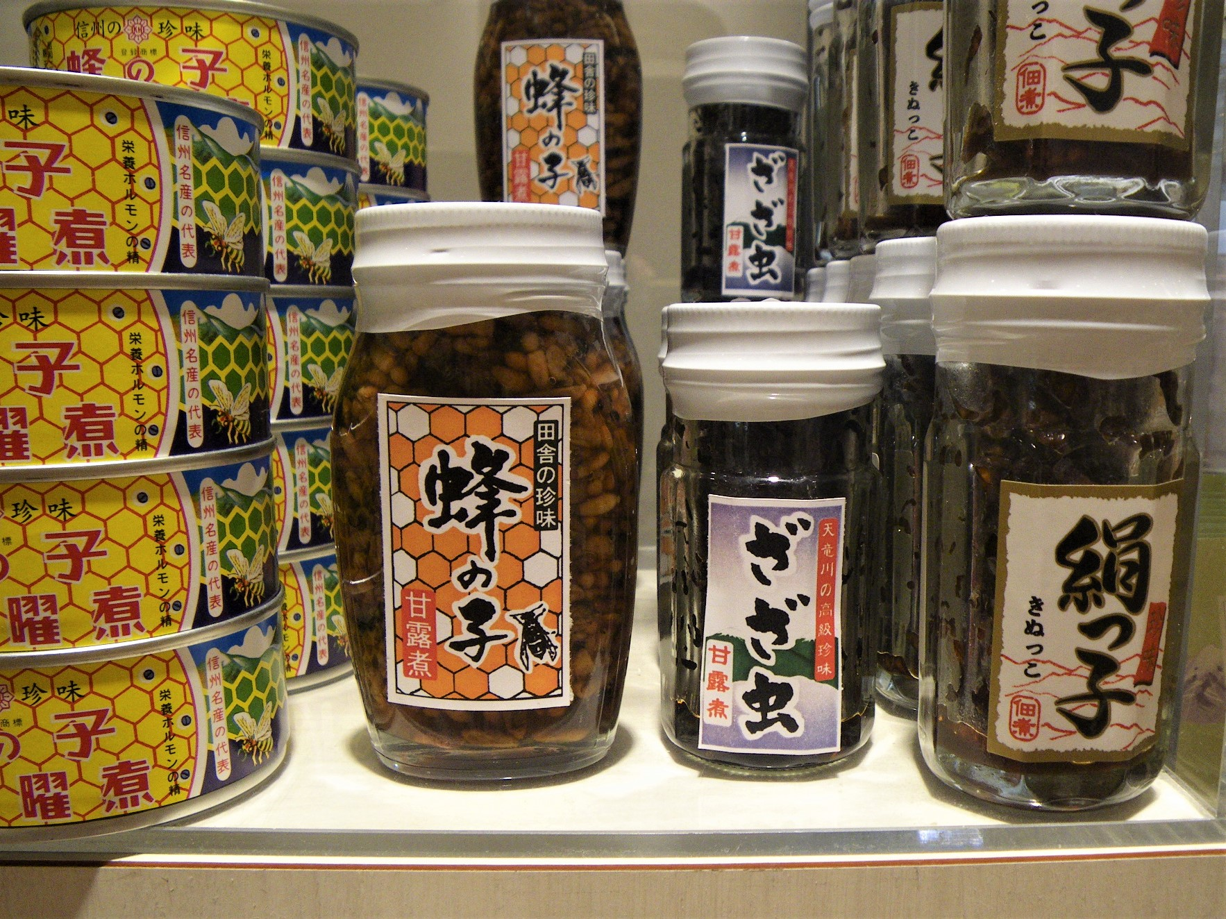 Food insects at a grocery store in Ina, Nagano Pref., Japan. Left to right: Hachinoko (wasp larvae and pupae), Zazamushi (stenopsychid caddisfly larvae), Kinukko [Sanagi] (silkworm pupae).